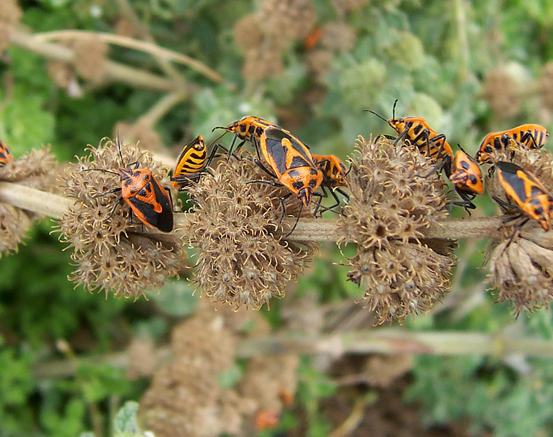 Image of Horehound bug Agonoscelis rutila (A green Australian grasshopper)